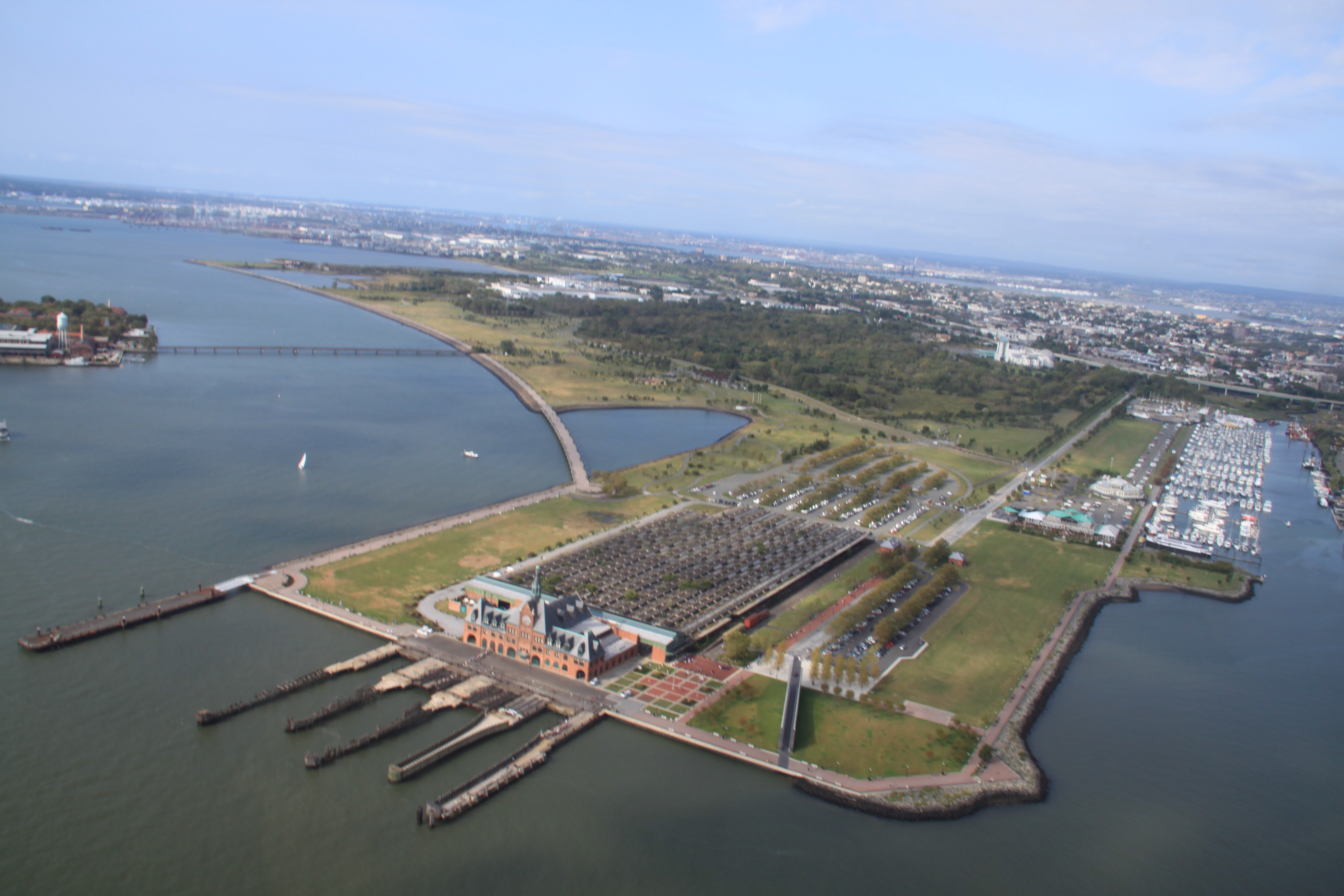 Central Railroad of New Jersey Terminal - View from helicopter